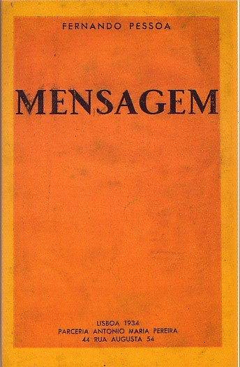 Mensagem, 1st edition, 1934.